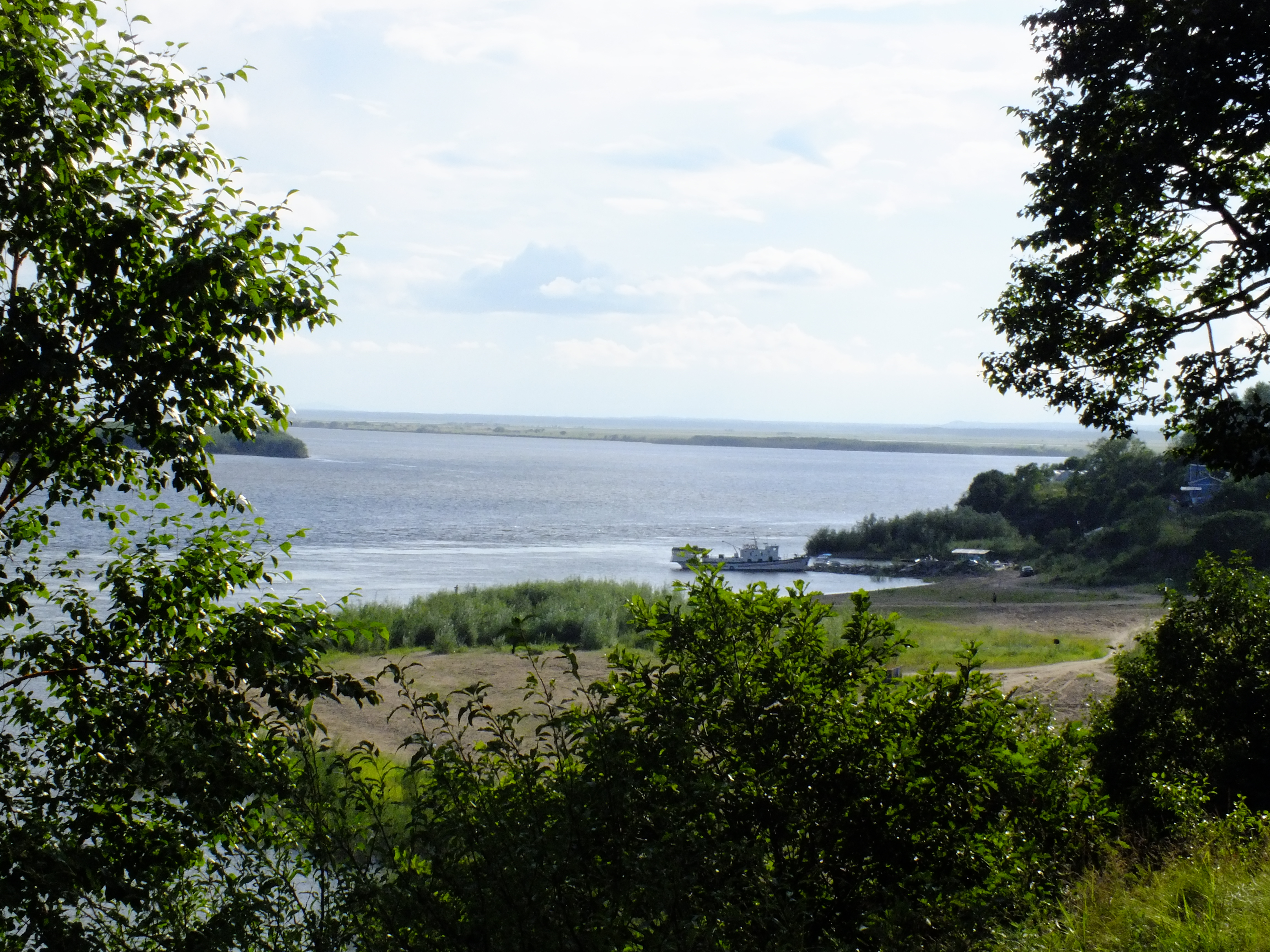 Amursk